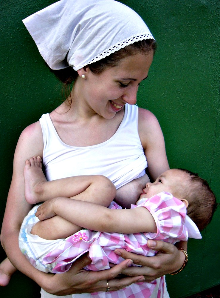 A woman breastfeeding an infant.